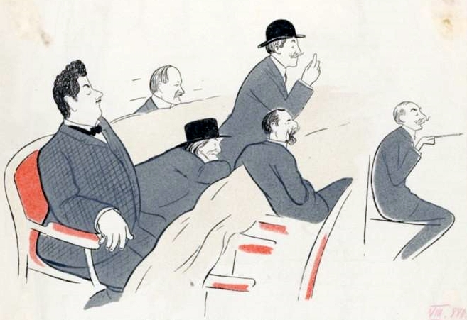 A rehearsal at the Opéra Comique (Paris).In the background: Paul Ferrier (1843-1920).In the foreground from left to right: Giacomo Puccini (1858-1924), Victorien Sardou (1831-1908), Albert Carré (1852-1938), Tito Ricordi II (-), André Messager (1853-1929).